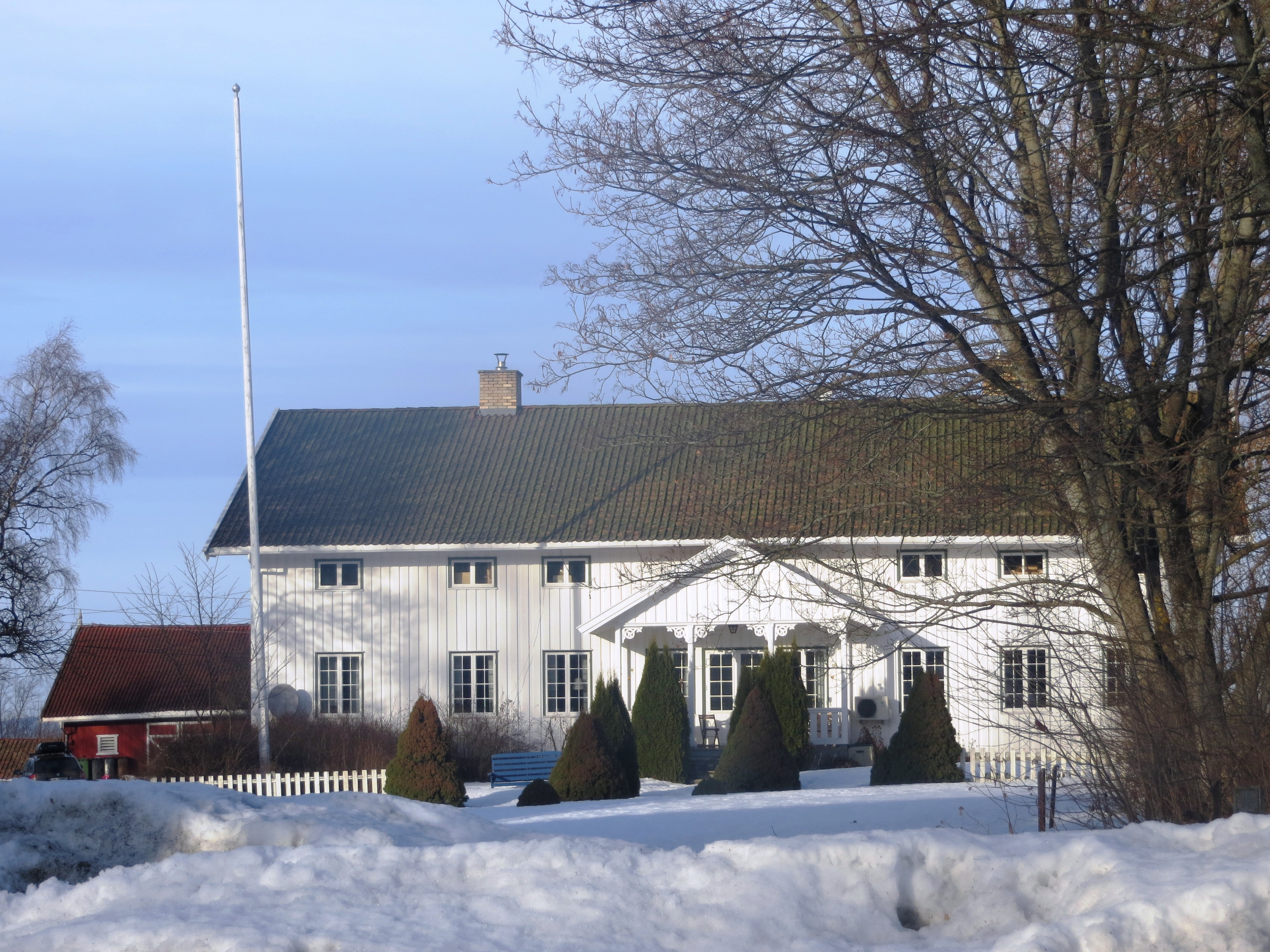 The parish manor of Hole church - Buskerud county, Norway